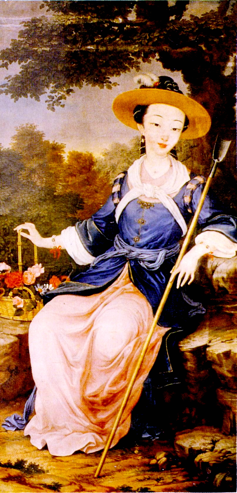 POrtrait of Consort Rong aka. the "Fragrant Consort" dressed in Western Clothes